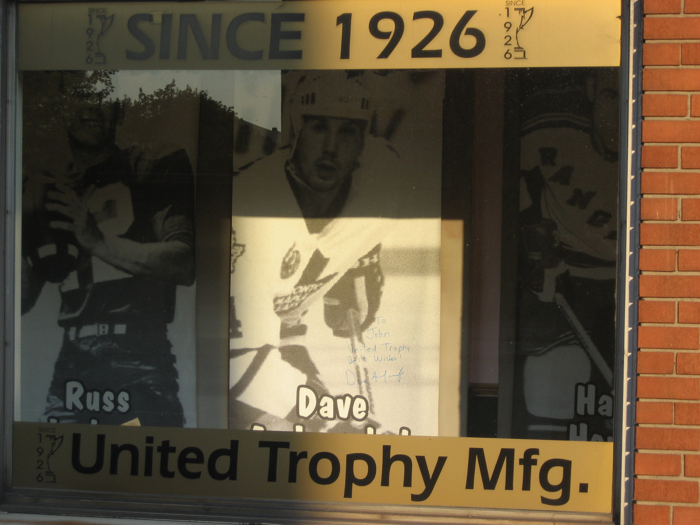 United Trophy Mfg. (window with images of Russ Jackson, Dave Andreychuk & Harry Howell), Cannon Street, Hamilton.